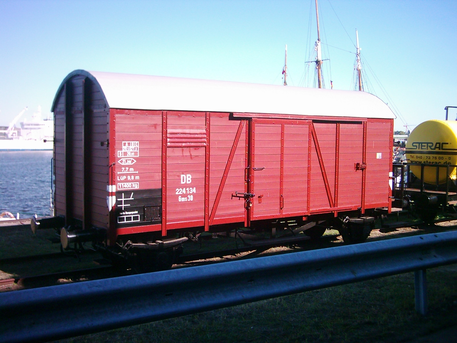 German rail car.